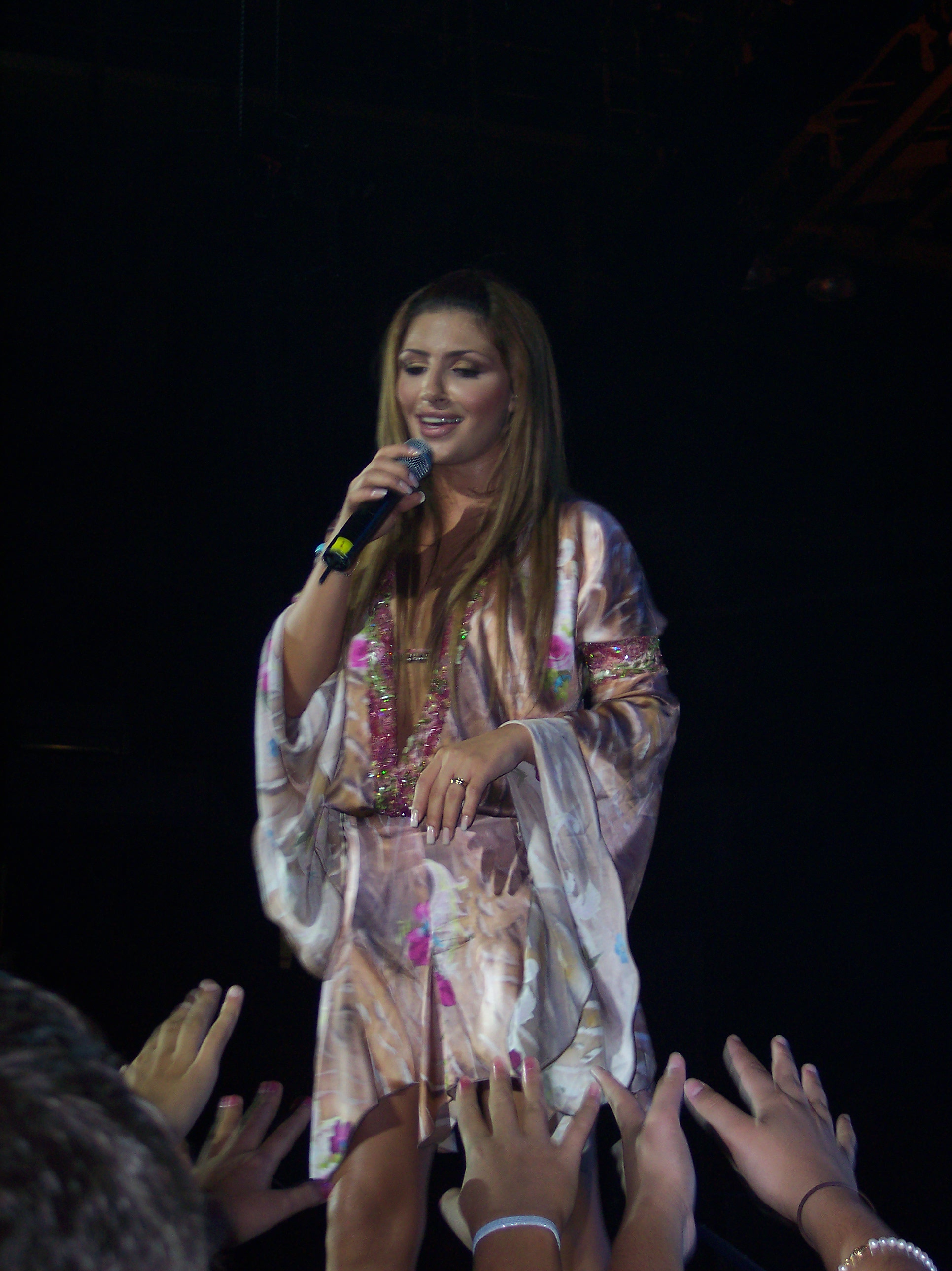 Elena Paparizou performing in Chicago, Illinois.